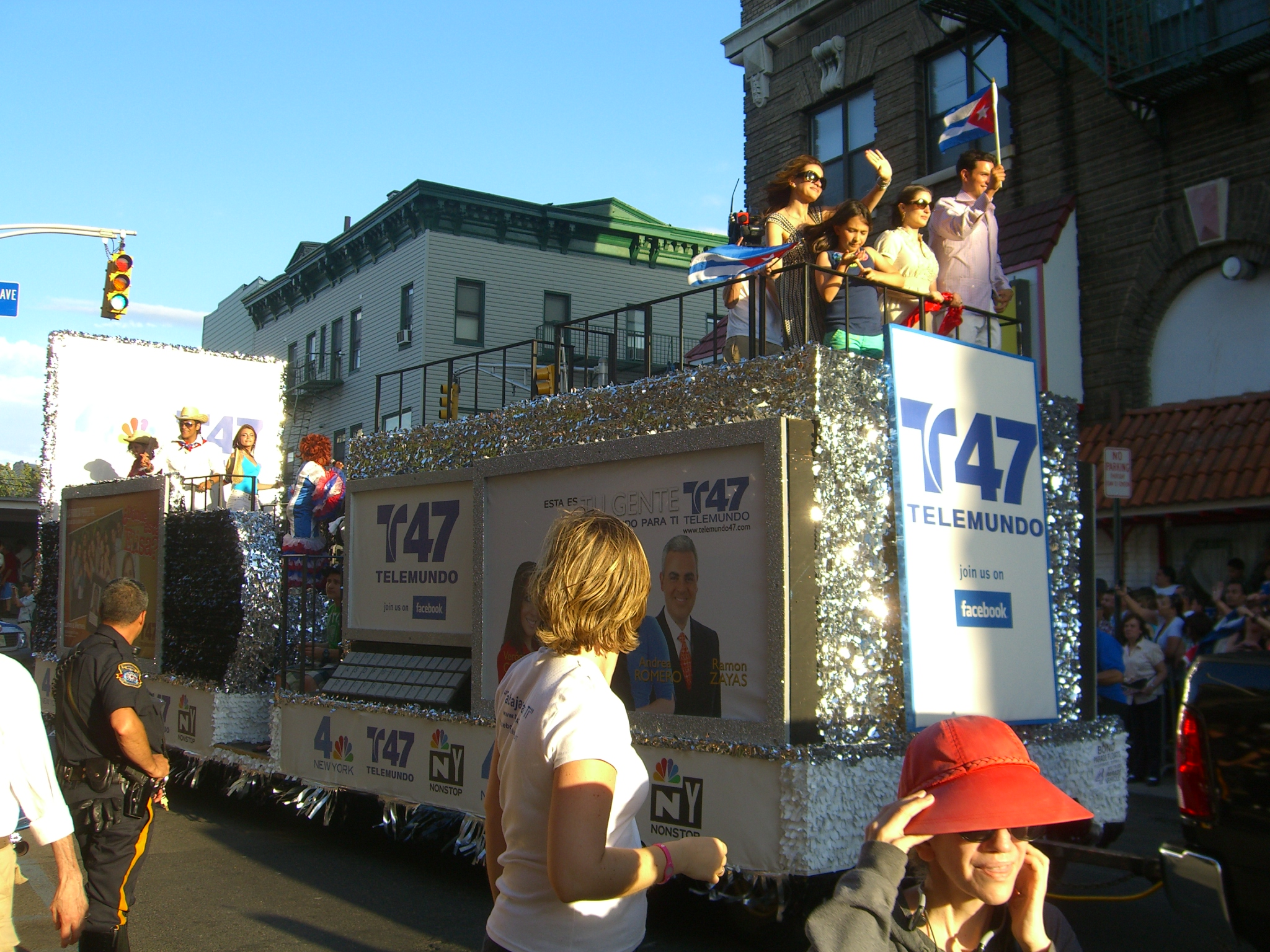 A Telemundo float in the 11th annual North Hudson Cuban Day Parade on Bergenline Avenue at 43rd Street in Union City, New Jersey, June 6, 2010. Photo by Luigi Novi. This photo may be used and modified, for any purpose, only if the photographer is visibly credited in each instance in which it is used. (See licensing information below.) For more information on my photos, you can contact me here.